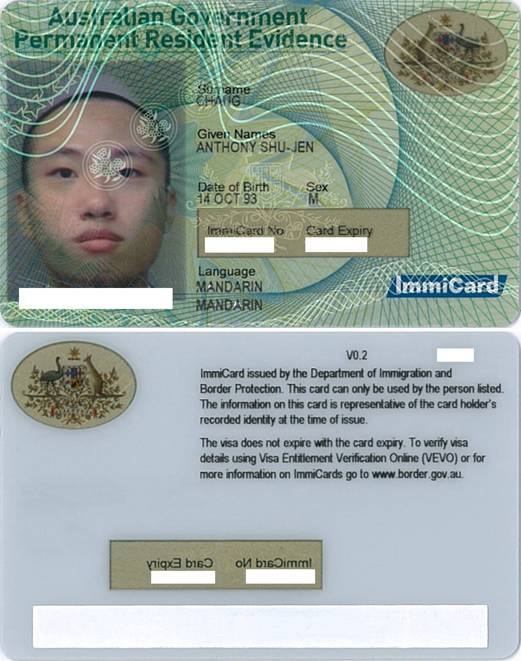 Australian Permanent Resident Evidence ImmiCard (Green Card) for refugees holding 866 Permanent protection visa.